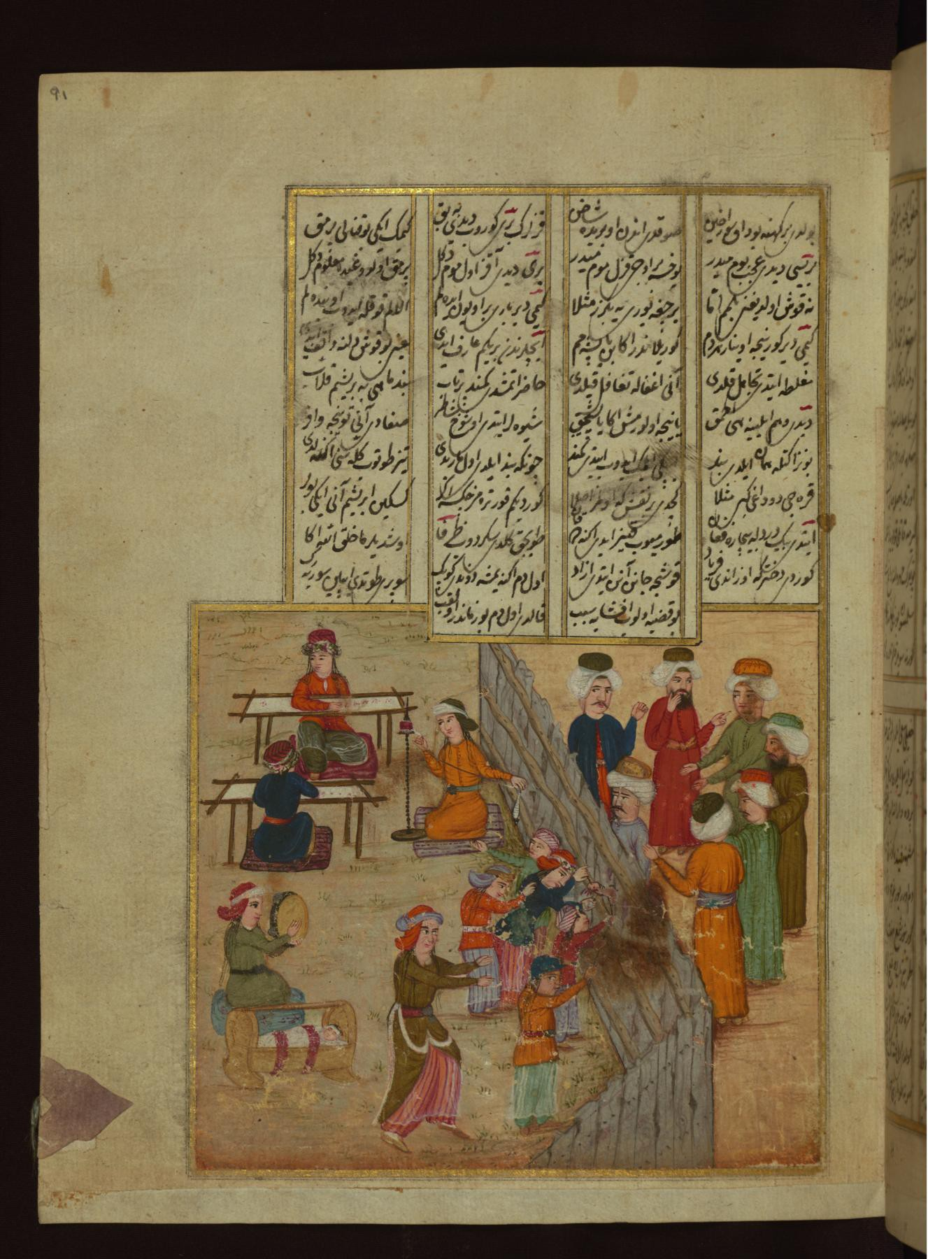 Khamsa by Atai (Walters MS 666)